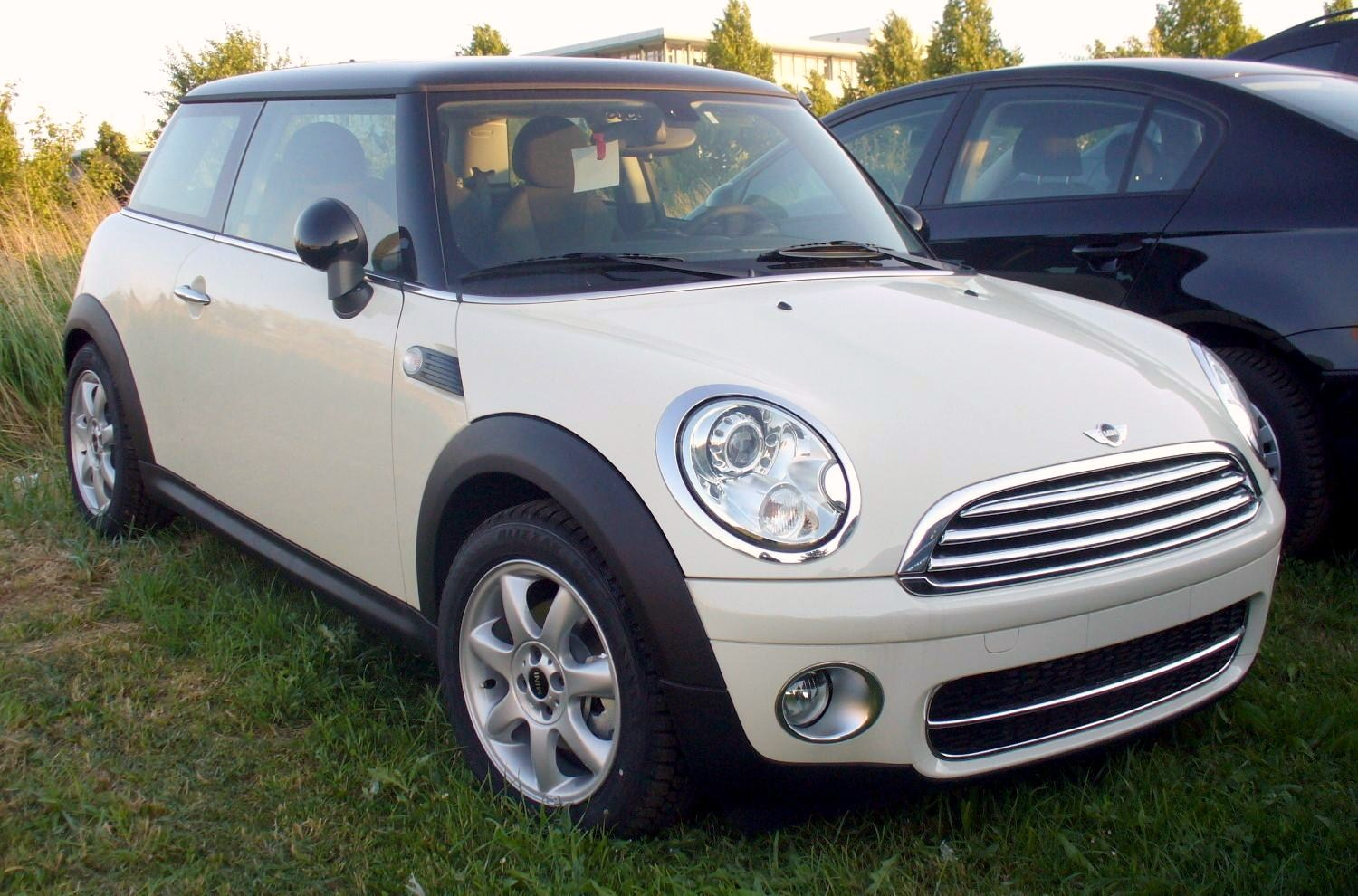 Mini Cooper D